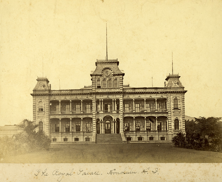 Iolani Palace in 1885.